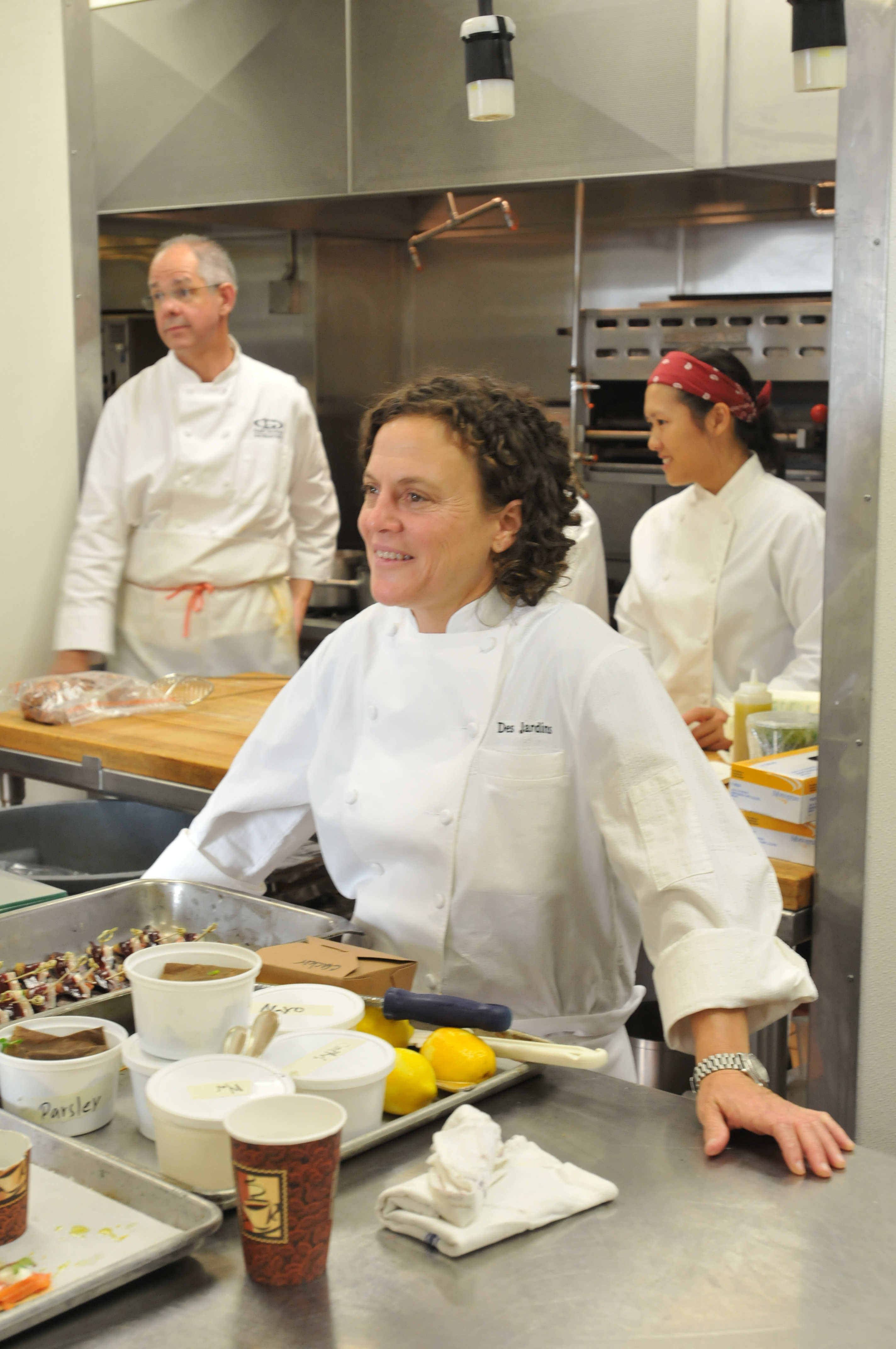 August 7 Traci des Jardins and Gary Danko Photo by Michael Grassia